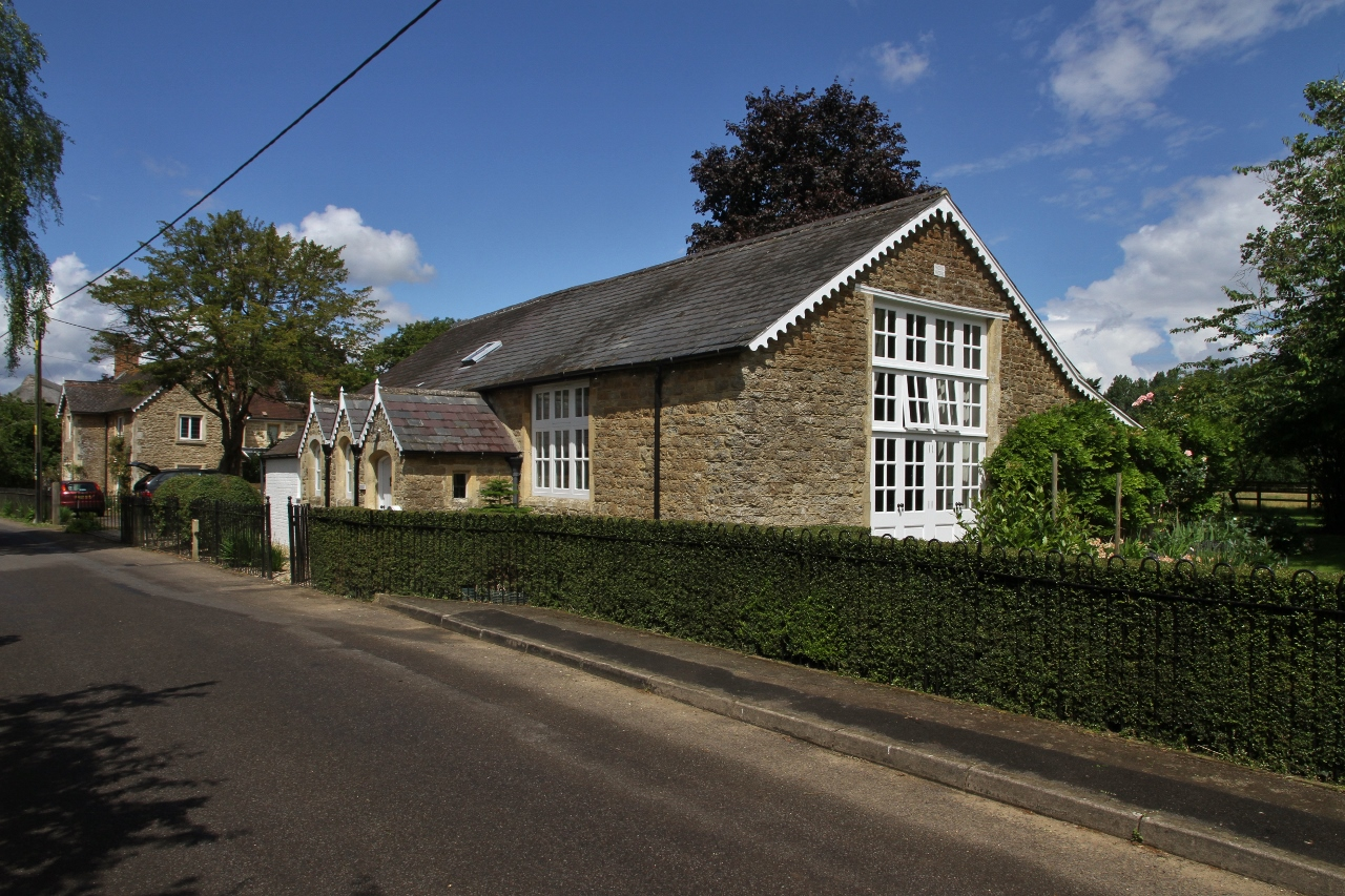 Former parish school in Hinton Waldrist, Oxfordshire (formerly Berkshire). The building is now a private house.